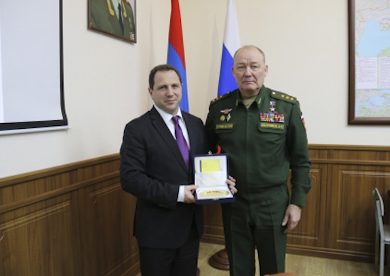 Командующий войсками ЮВО обсудил с главой военного ведомства Армении вопросы планирования совместных учений